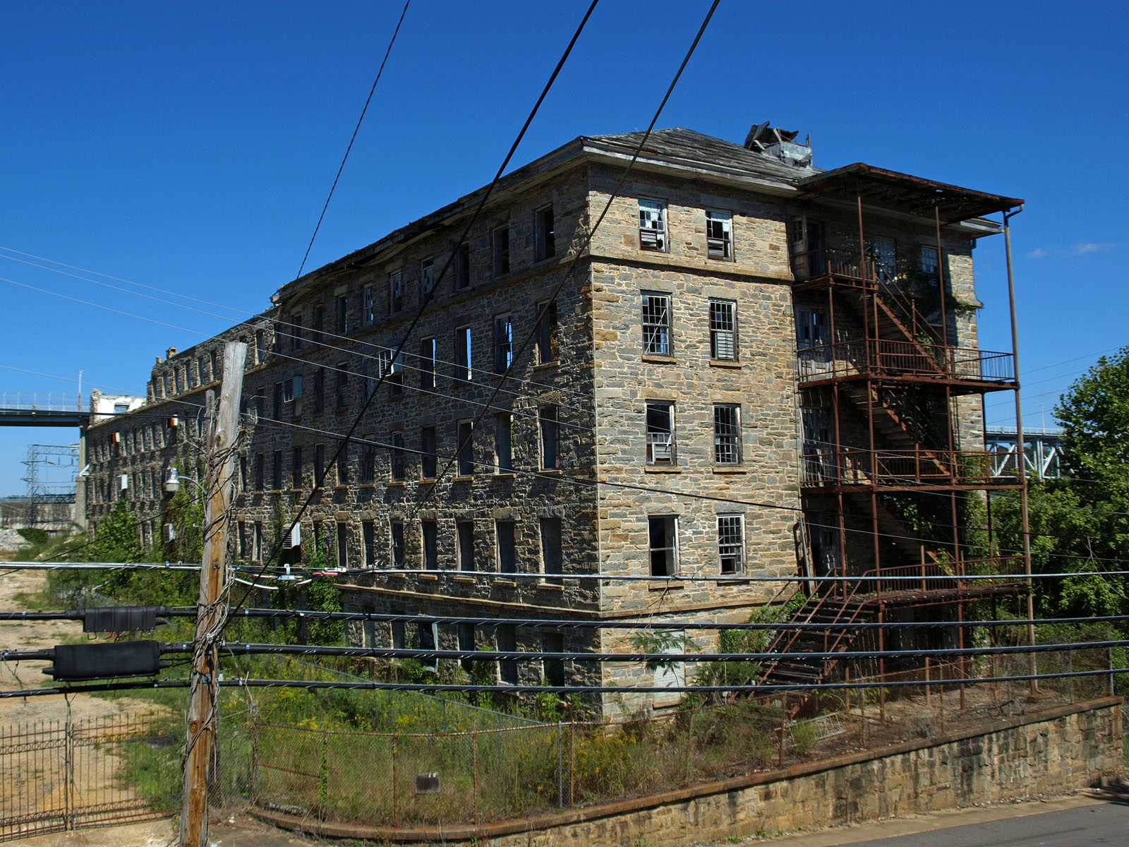 Tallassee Mills (west side) in Tallassee, Alabama